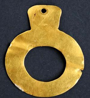 Prehistoric jewelry found in Ptolemaida, Greece.